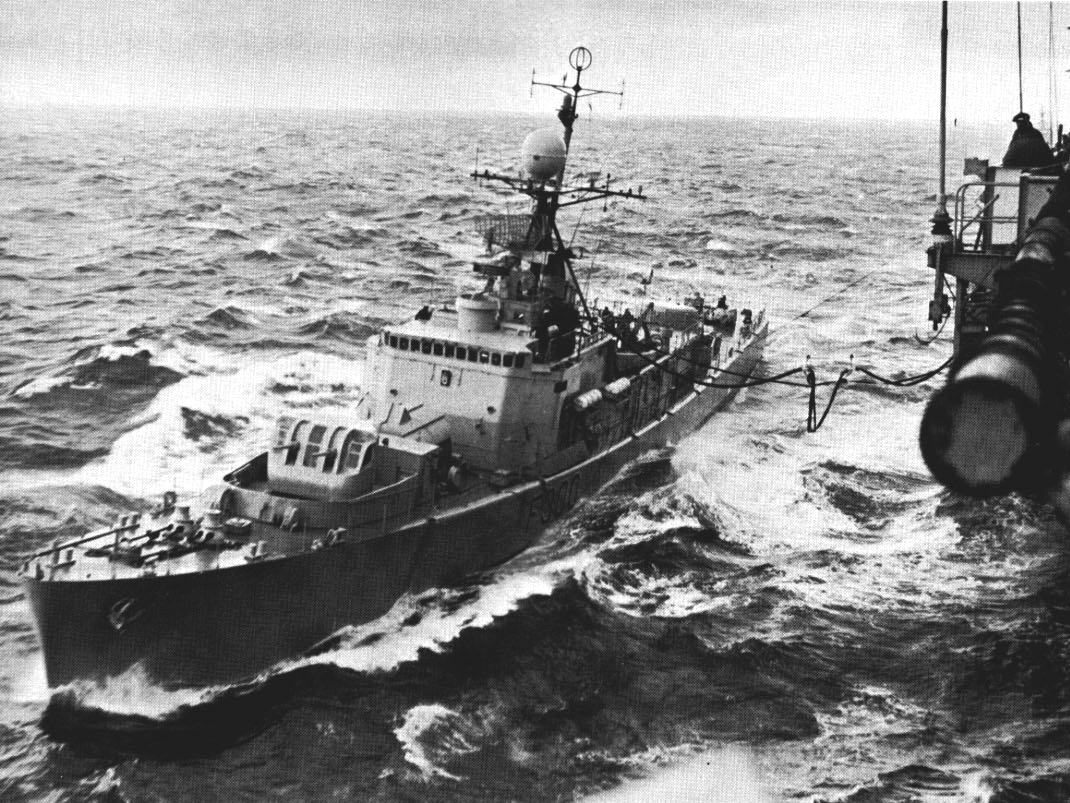 The Royal Norwegian Navy frigate KNM Oslo (F300) refuels from the U.S. Navy aircraft carrier USS Independence (CVA-62) during a NATO exercise in the North Atlantic, circa 1971.